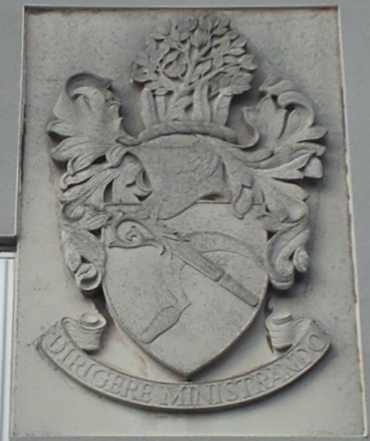 Arms of Bromsgrove, concrete artwork on the facade of 94 Birmingham Road, Bromsgrove, Worcestershire, which used to house council offices